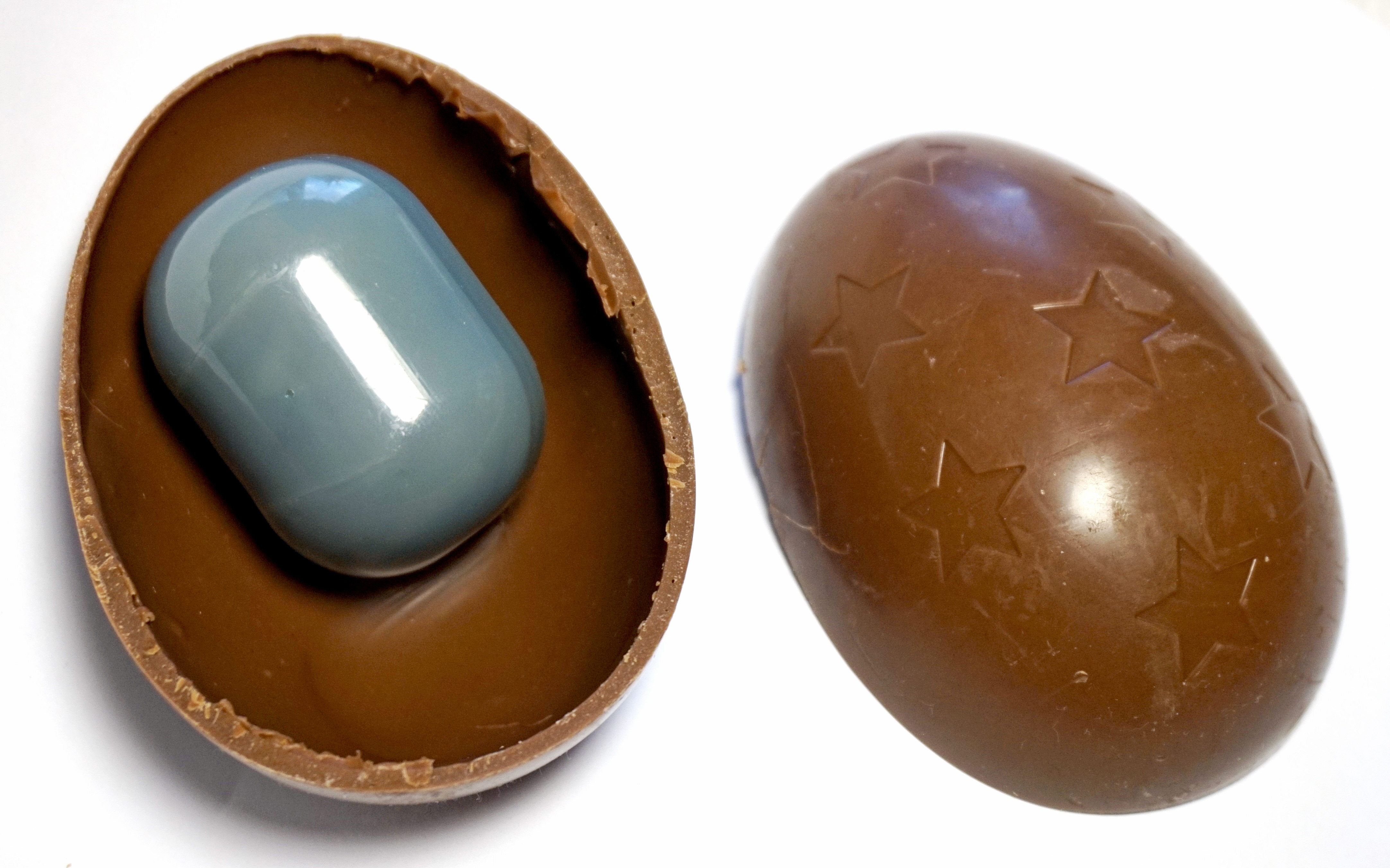 A chocolate egg "Star Wars" opened. Includes 30% cocoa, weight 50 grams. Producted by Mon Desir snc, Italy.